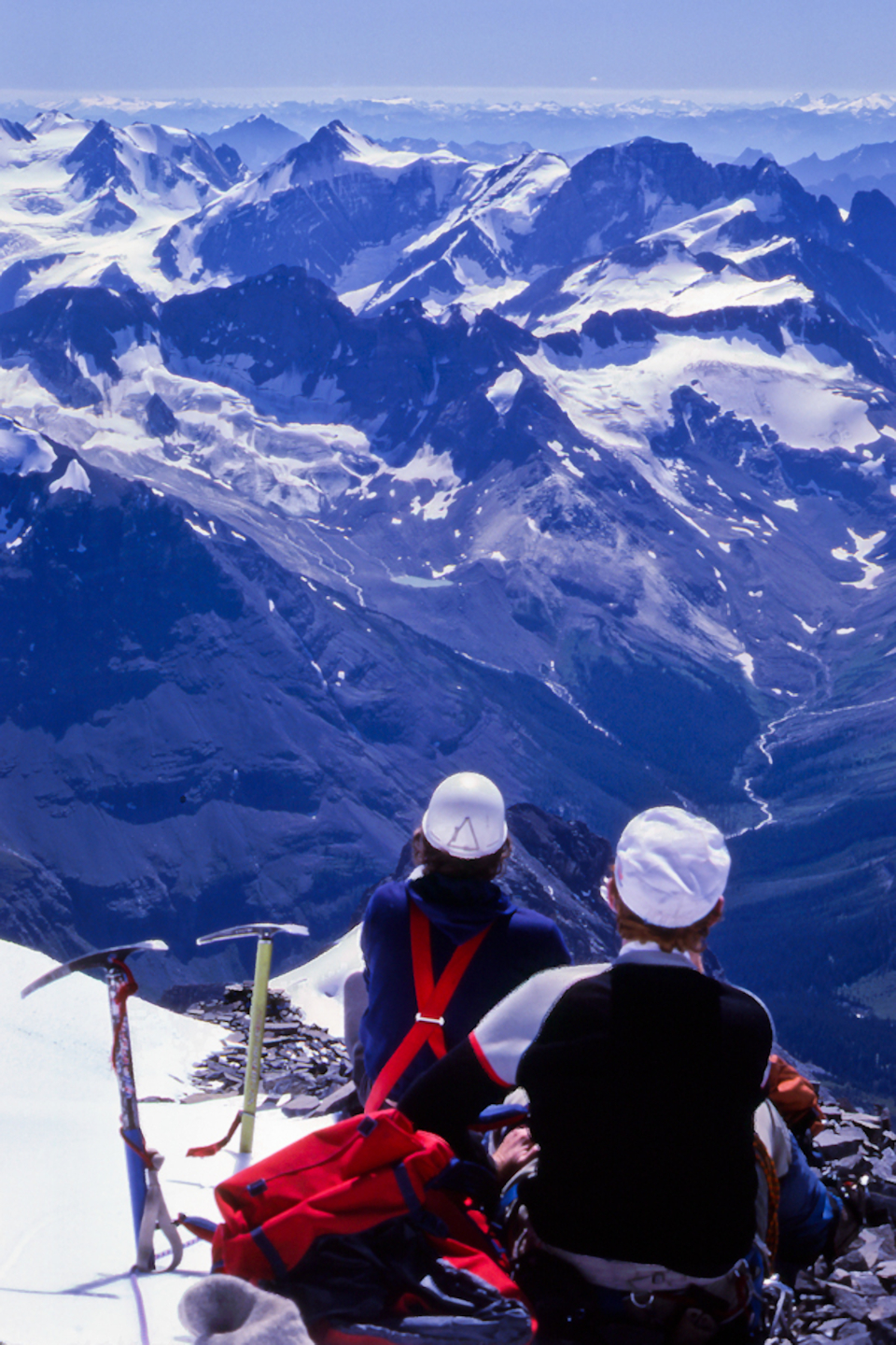 Mt. Forbes' summit lunch, looking into the Freshfields; nutrition and hydration are key aspects for mountaineering, with typically awesome surroundings; Vic & Doug